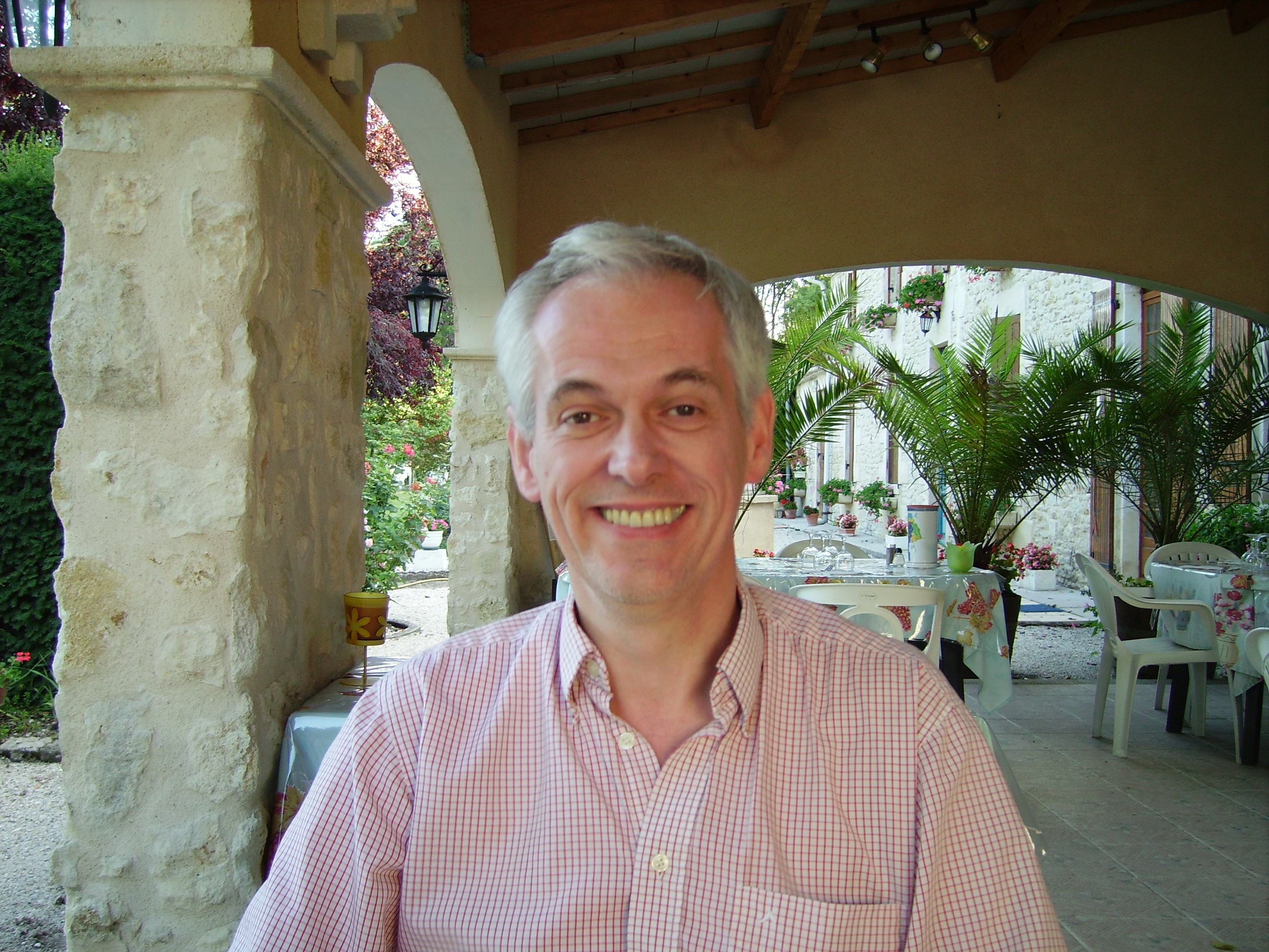 Picture of Wim Crusio. Picture taken during a visit to Lesparre-Médoc.